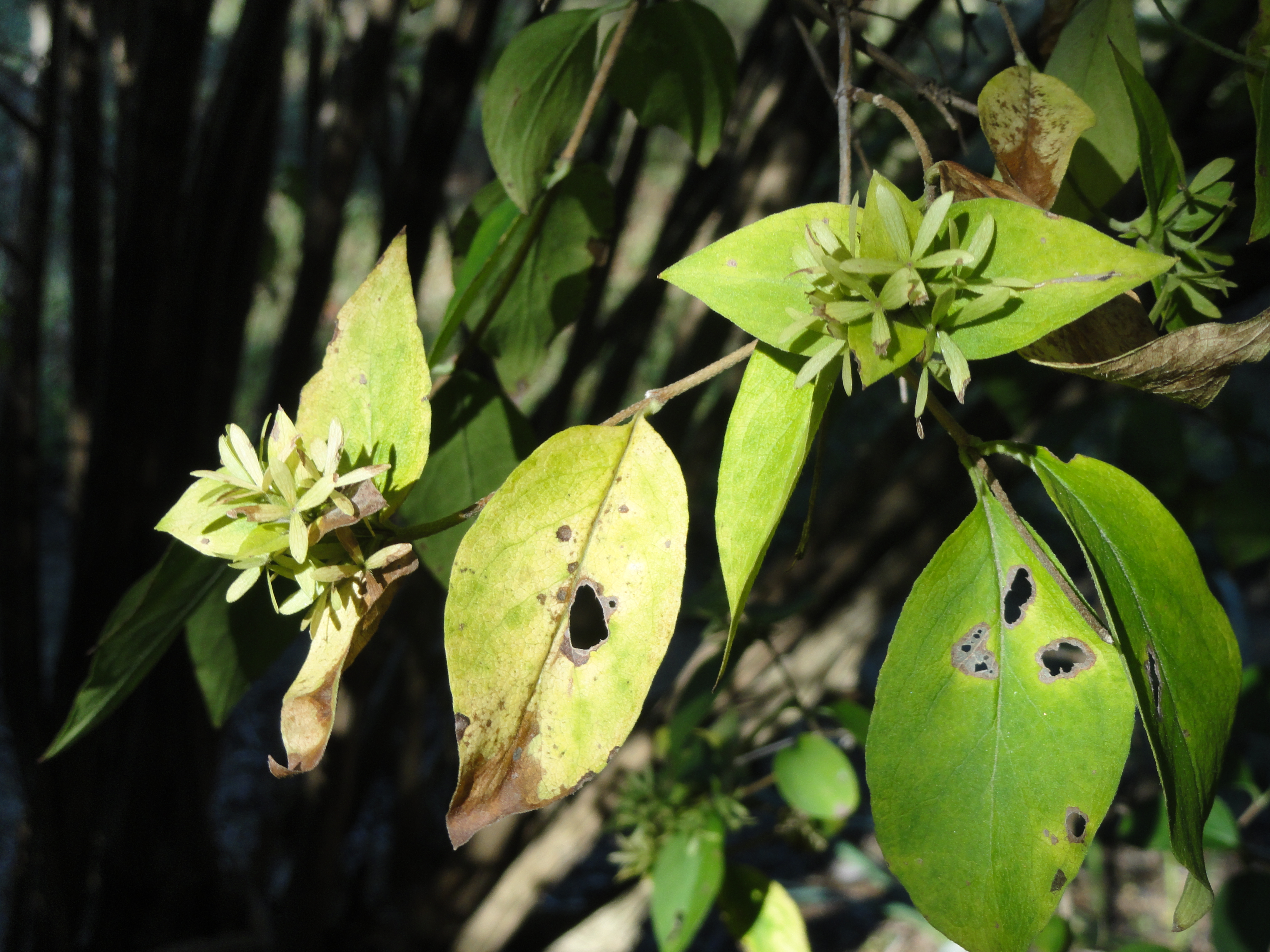 Abelia mosanensis specimen in the J. C. Raulston Arboretum (North Carolina State University), 4415 Beryl Road, Raleigh, North Carolina, USA.